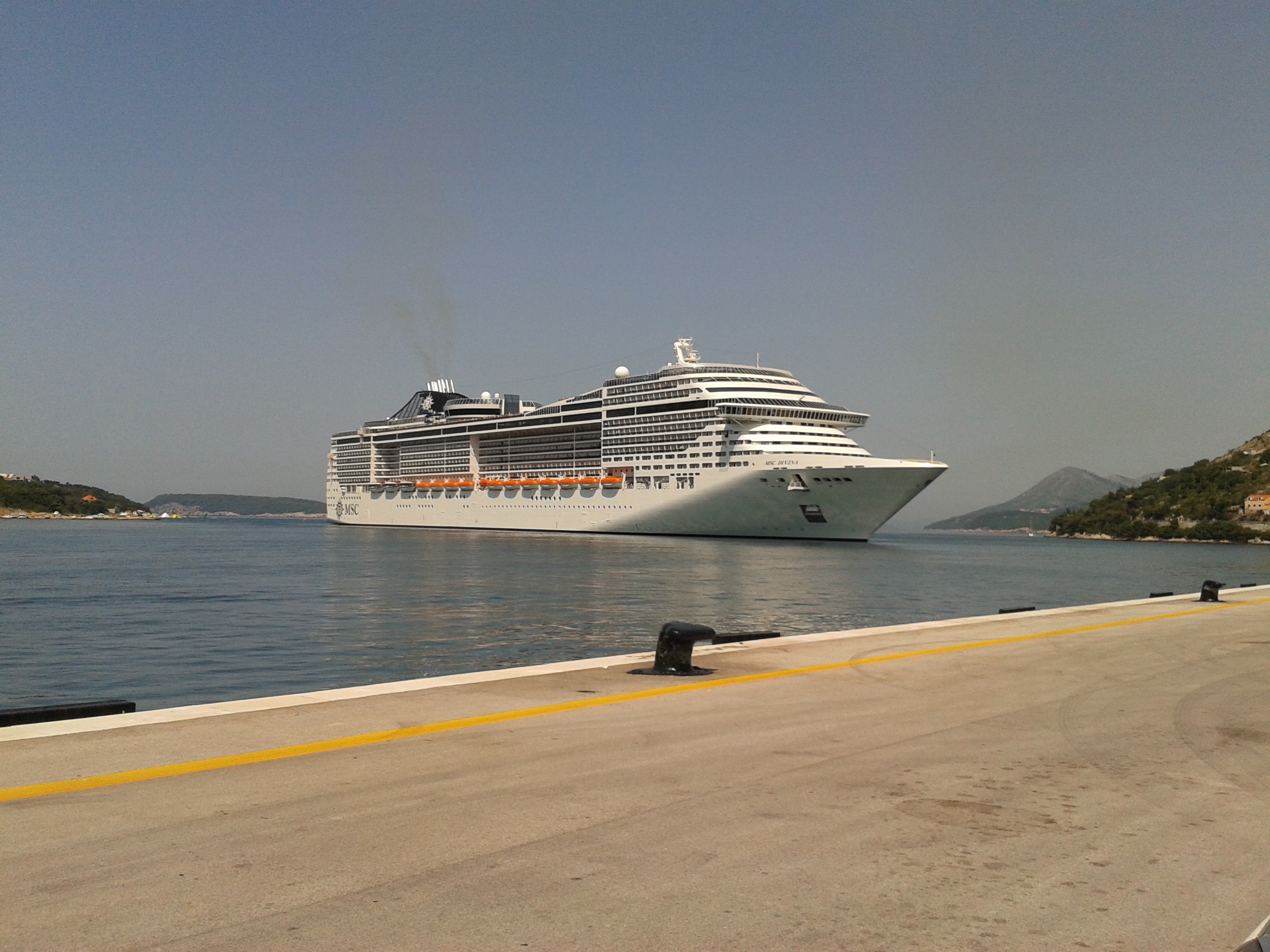 MSC Divina in port Gruž Dubrovnik